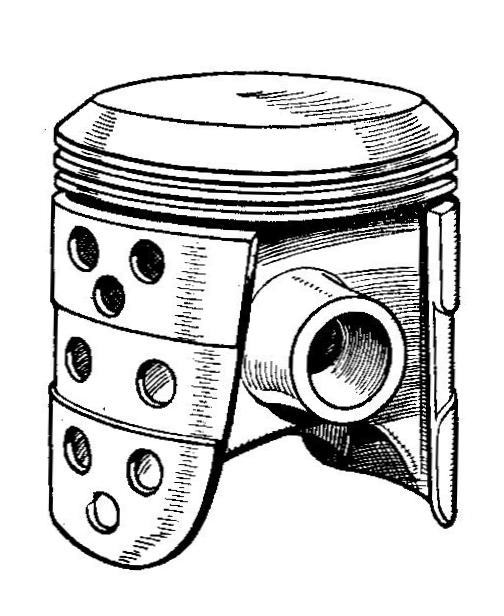 Ricardo slipper piston (Autocar Handbook, 13th ed, 1935).jpg